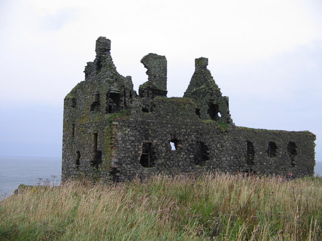 Dunskey castle